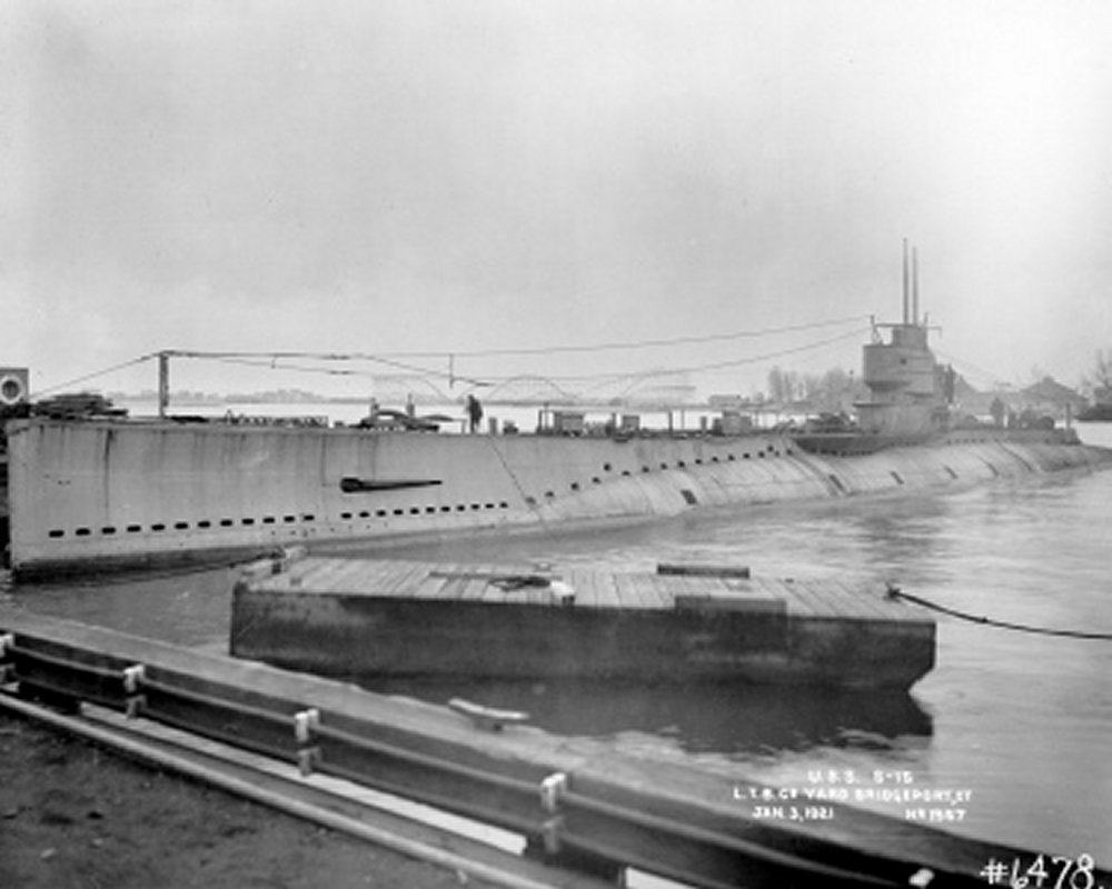 United States Navy submarine at Bridgeport, Connecticut, twelve days before her commissioning.